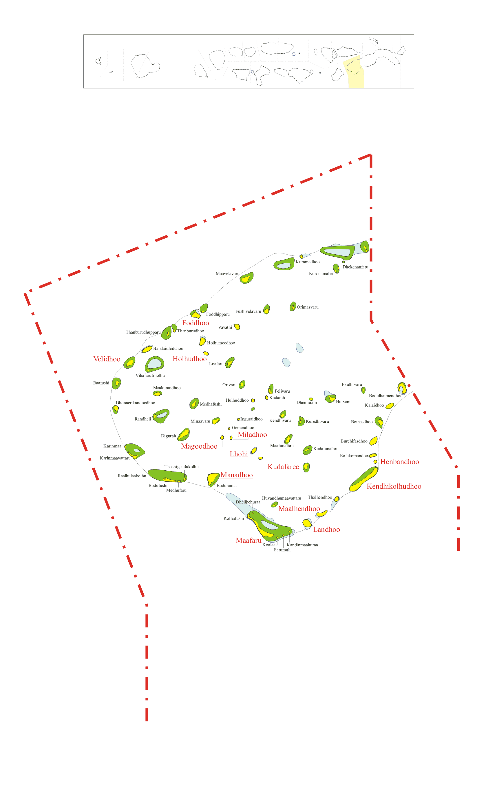 Summary Map of Noonu_Atoll Map originally vector'ed by Hassan Waheed, Aabaadhuge of Thinadhoo island. Note: This section of map was extracted and its text was romanized by Oblivious. Special assitance by Waddey and Zuru Converted to PNG by helix84 source: Image:Noonu_Atoll.jpg